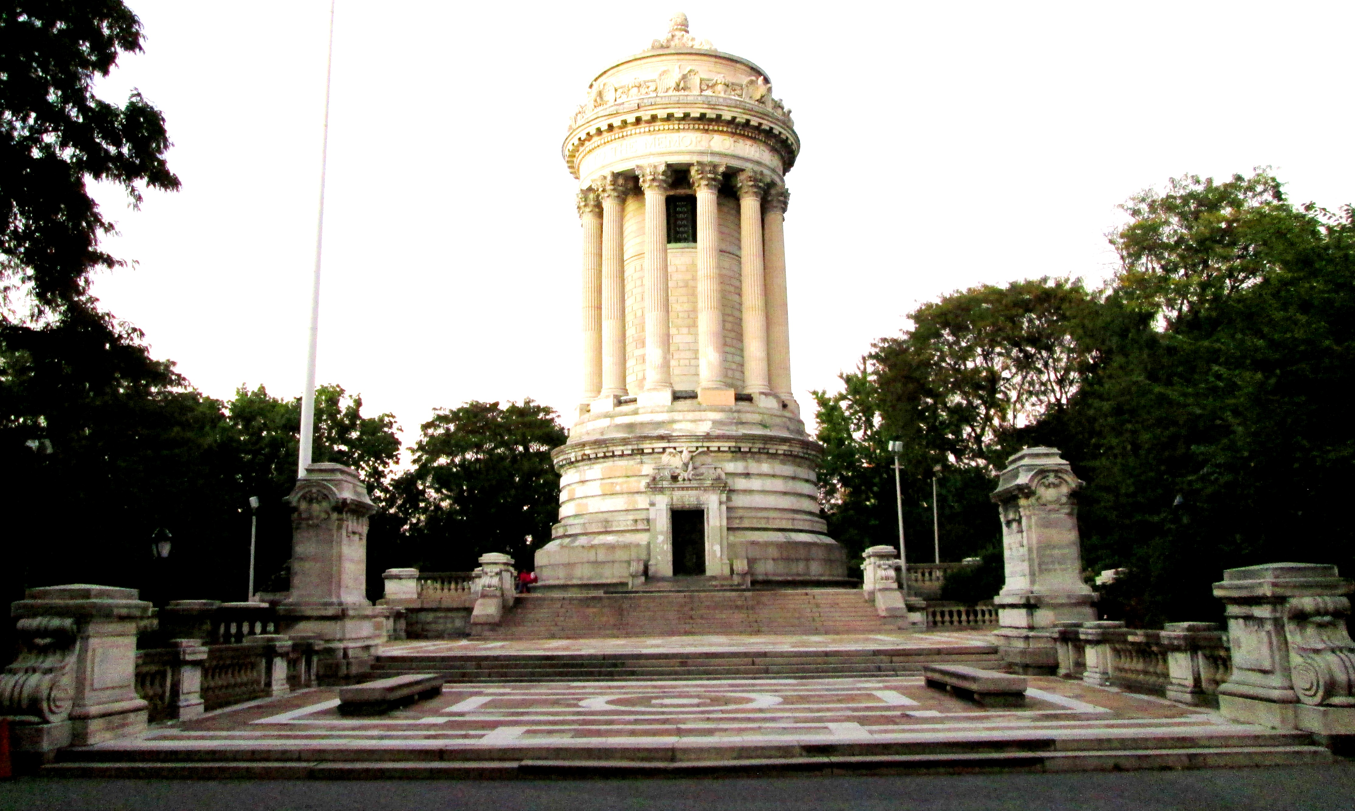 The Soldier's and Sailors' Monument in Riverside Park on Riverside Drive at West 89th Street in the Upper West Side honors the dead of the Civil War, and was designed by Stoughton & Stoughton with Paul E. M. DuBoy. It was built from 1897-1902 and is an enlarged version of the Choragic Monument of Lysicrates in Athens. (Sources: AIA Guide to NYC (Fifth Edition) and Guide to NYC Landmarks (Fourth edition))